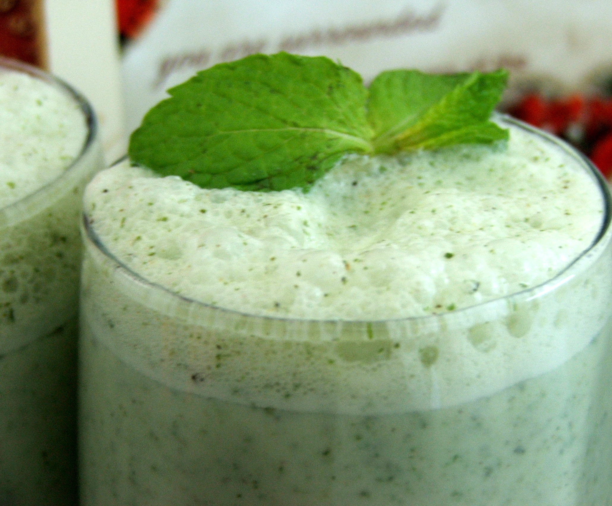 Mint Lassi; This is Mint flavored Lassi- Fat free yogurt spiced with fresh mint leaves , grounded cumin seeds ,salt and pepper.....best drink to beat heat and making your digestion strong. Location: Chandigarh, India